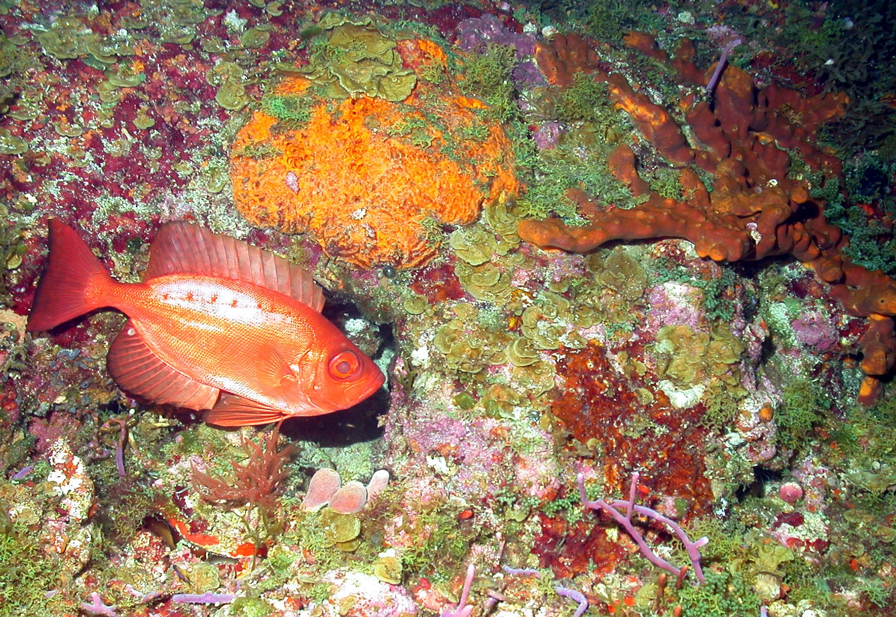 A bigeye (Priacanthus arenatus). Gulf of Mexico, McGrail Bank.